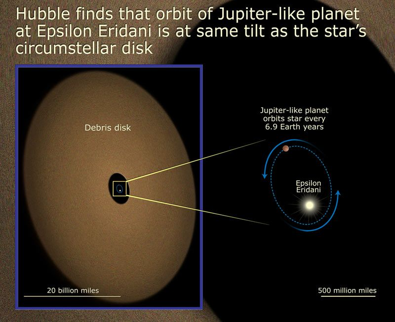 Illustration of the debris disc around Epsilon Eridani